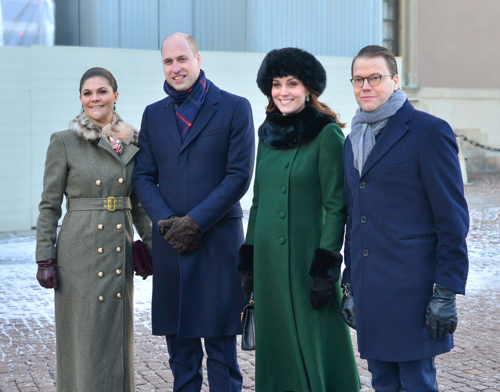 Prince William, Duke of Cambridge and Catherine, Duchess of Cambridge on official visit to Stockholm in Sweden in January 2018. On a walk in the Old Town of Stockholm together with Crown Princess Victoria and Prince Daniel, they meet swedes and tourists.